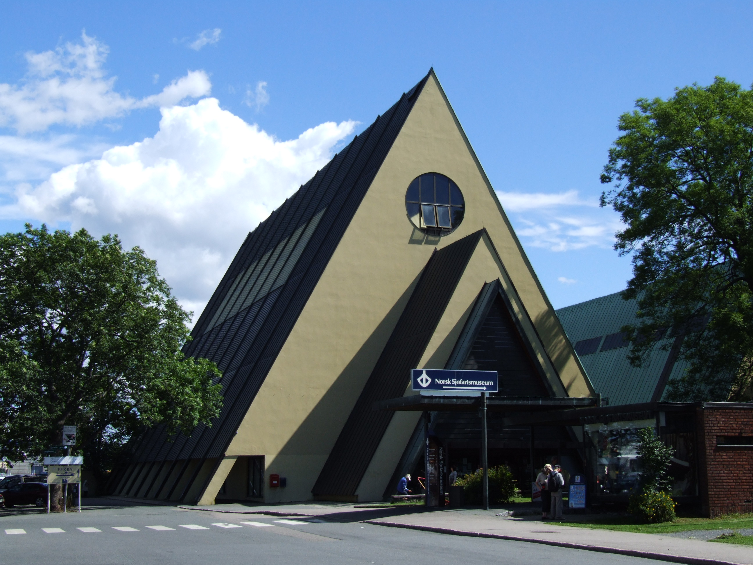 Fram Museum in Oslo, Norway.